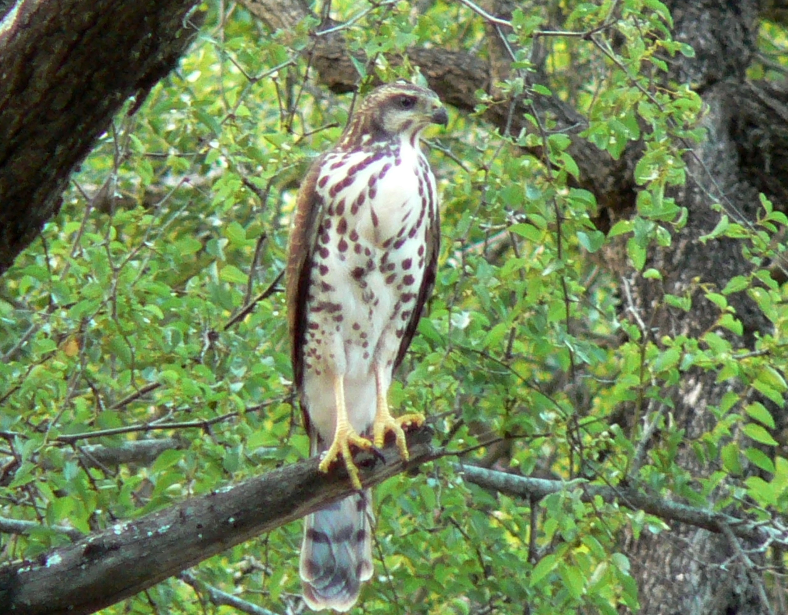 An immature female African goshawk at Skukuza in the Kruger National Park, South Africa